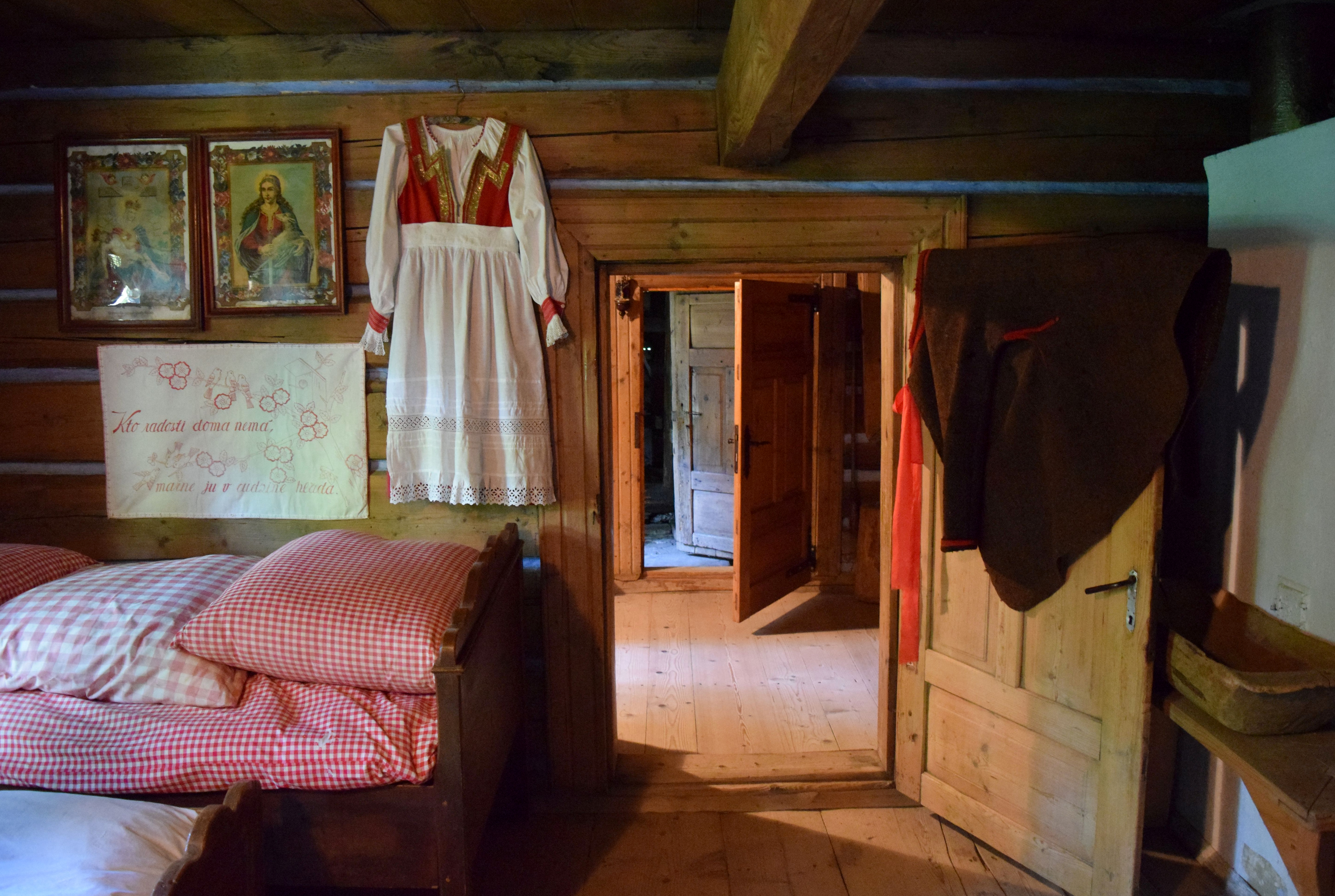 The Korkosz Croft in Czarna Góra